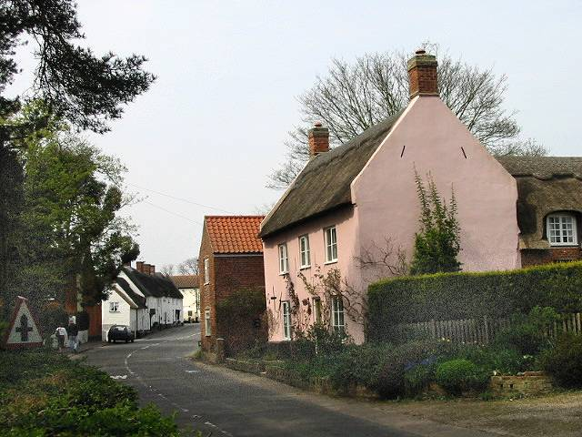 View along Yarmouth Road into Ludham